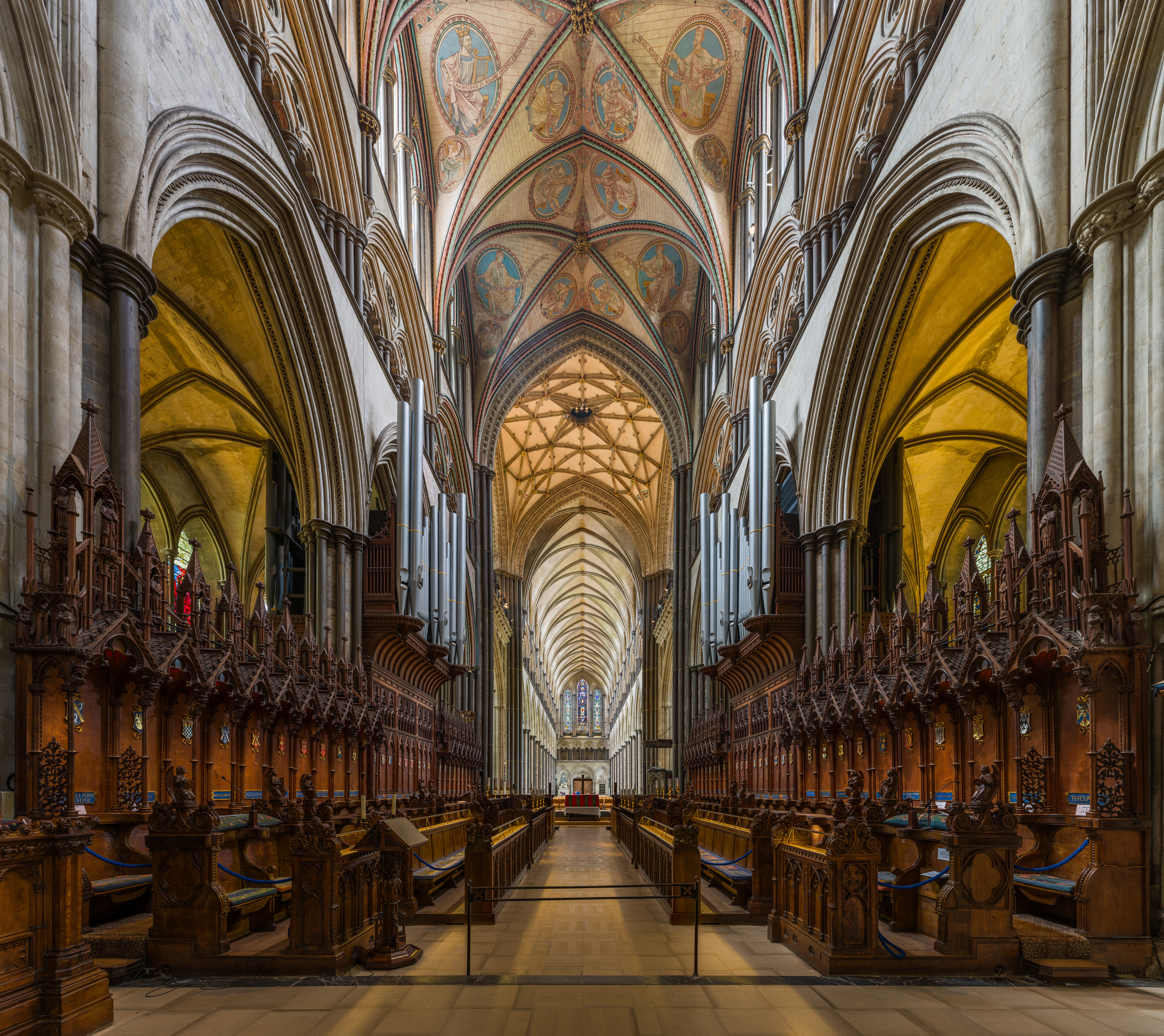 The view looking west from the choir towards the nave at Salisbury Cathedral.